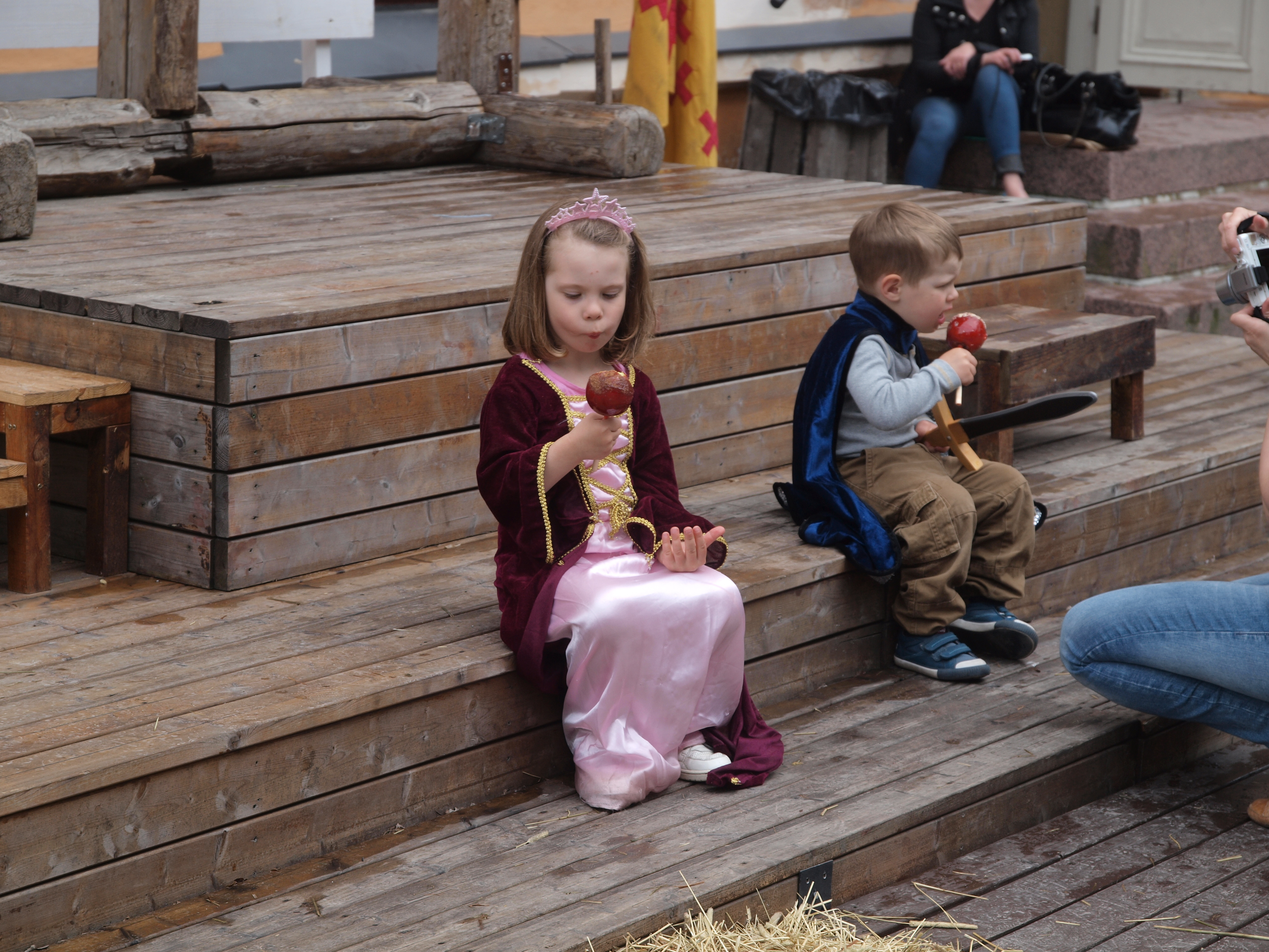 A girl dressed as a maiden or a princess and a boy dressed as a knight, both eating candied apples, at the annual Turku Medieval market in Turku, Finland Proper (I still refuse to call it "Southwest Finland"), Finland.